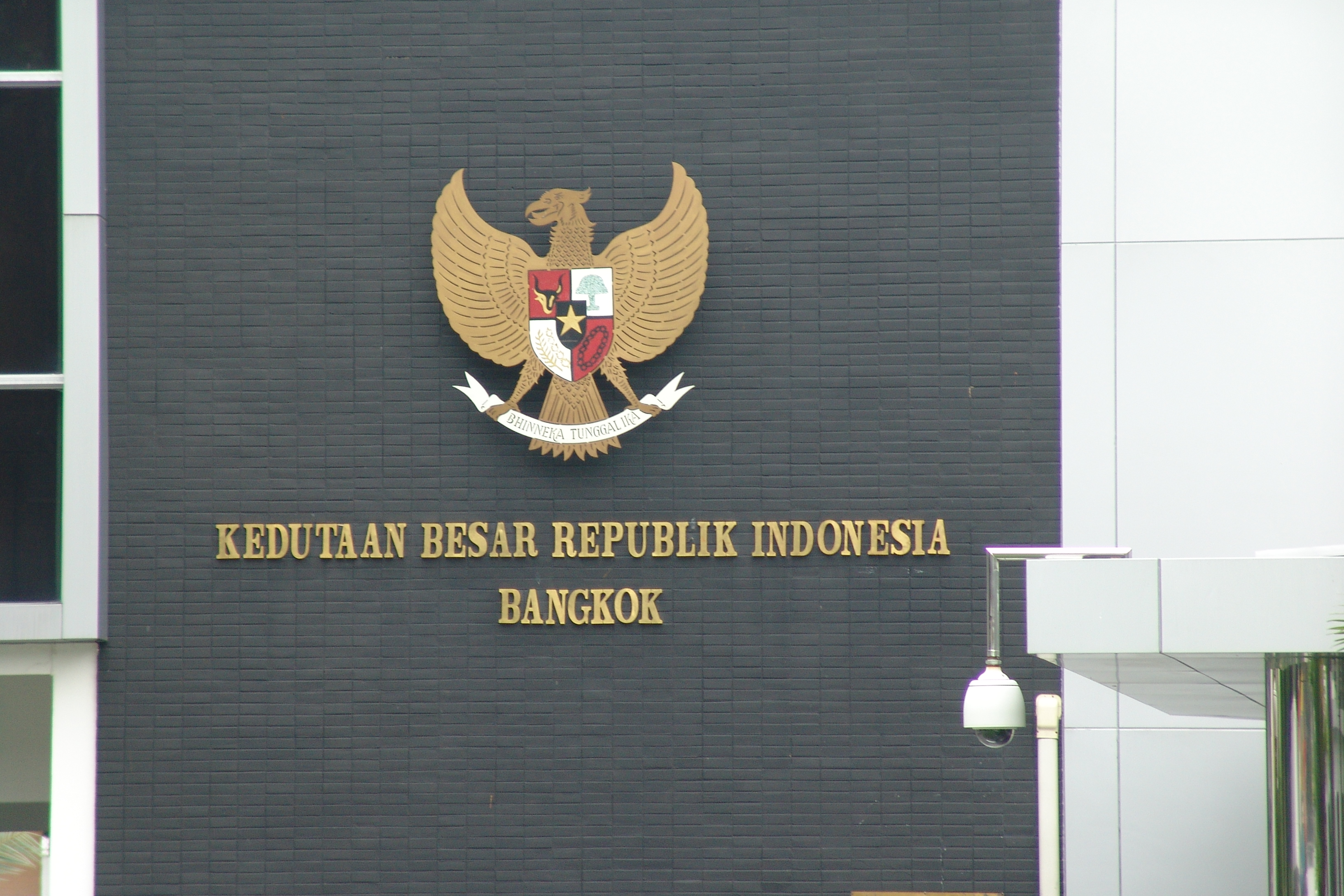 Garuda at the Wall of the Indonesian Embassy in Bangkok, New Petchabury Road. April 2005. Own photo.